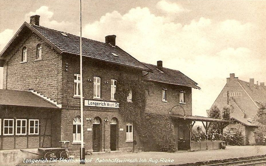 former terminal building at 1901 opened station Lengerich City of the Teutoburg Forest Railway line (Teutoburger Wald-Eisenbahn) as it was built by Vering & Waechter. In the background the 1930 raised und 1941 destroyed postal office.